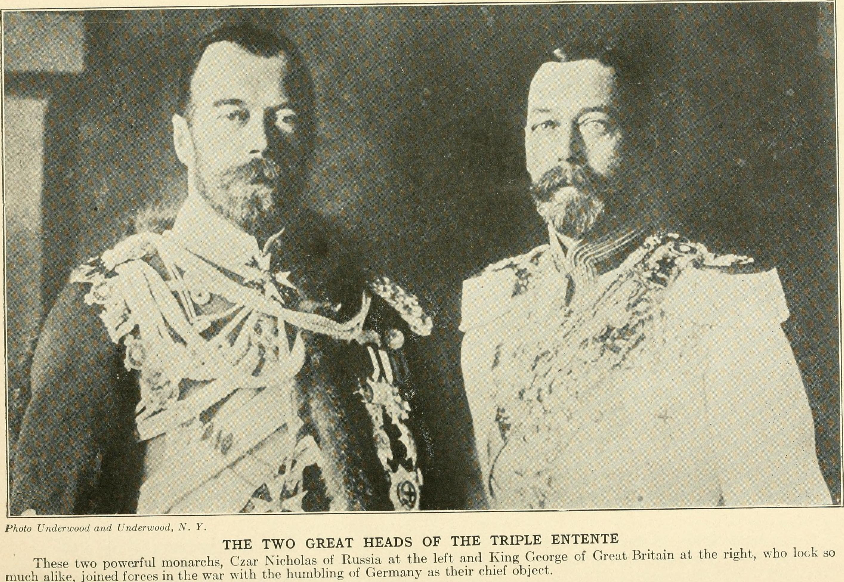 Czar Nicholas II of Russia and King George V of Great Britain Title: One hundred years of conflict between the nations of Europe, the causes and issues of the great war; Year: 1914 (1910s) Authors: Morris, Charles, 1833-1922 Subjects: World War, 1914-1918 Publisher: (Philadelphia, Printed by G. F. Lasher & company Text Appearing Before Image: lue of securities within the first week of the war flurry was estimated at $2,000,000,000, and radical measures were necessary to prevent hasty action while the condition of panic prevailed. This sudden stoppage of ordinary financial operations was accompanied by a similar cessation of the industries of peace over a wide range of territory. The artisan was forced to let fall the tools of his trade and take up those of war. The railroads were similarly denuded of their employees except in so far as they were needed to convey soldiers and military supplies. The customary uses of the railroad were largely suspended and travel went on under great difficulties. In a measure it had returned to the conditions existing before the invention of the locomotive. Even horse traffic was limited by the demands of the army for these animals, and foot travel regained some of its old ascendancy. War makes business active in one direction and in one only,that of army and navy supply, of the manufacture of the imple- Text Appearing After Image: '